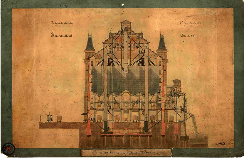 Cross section of the Budapest elevator, Christian Ulrich, 1880.